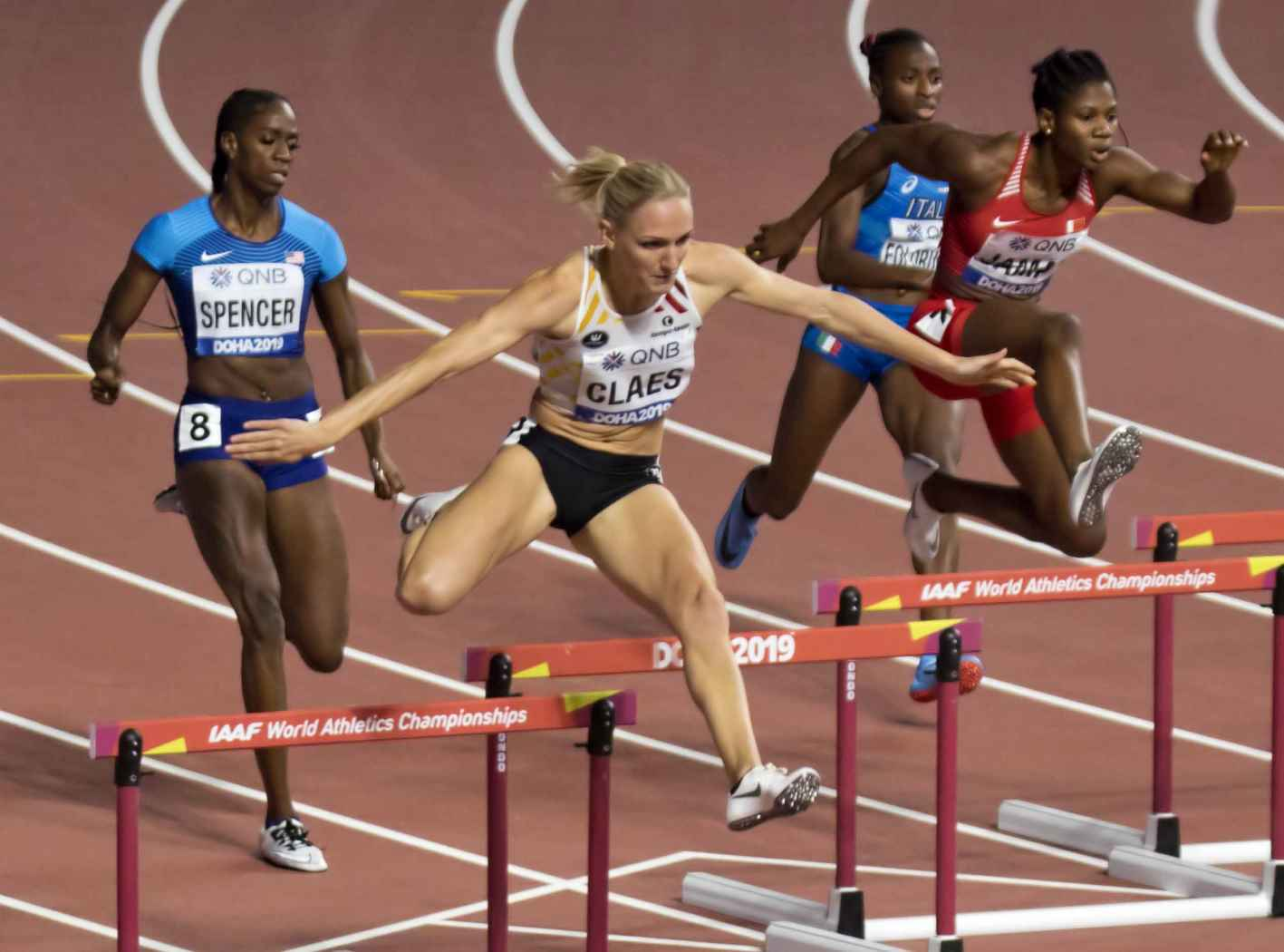 DOH50065 400mH women heats claes